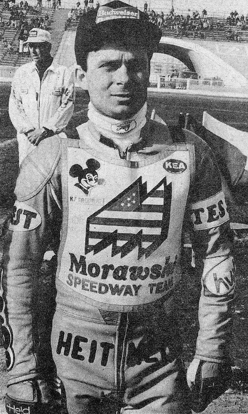 Maciej Jaworek. Polish speedway rider. Falubaz (Morawski) Zielona Góra.